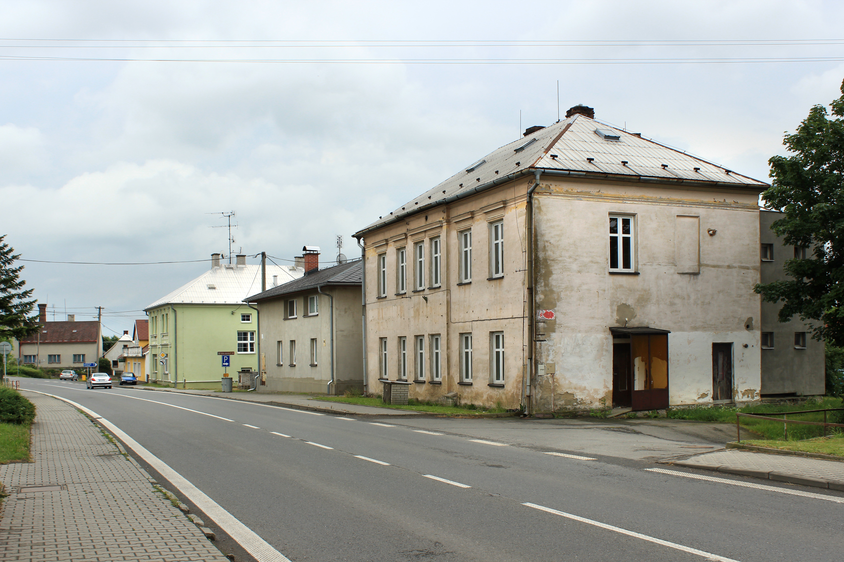 Opavská street in Velké Heraltice, Czech Republic.